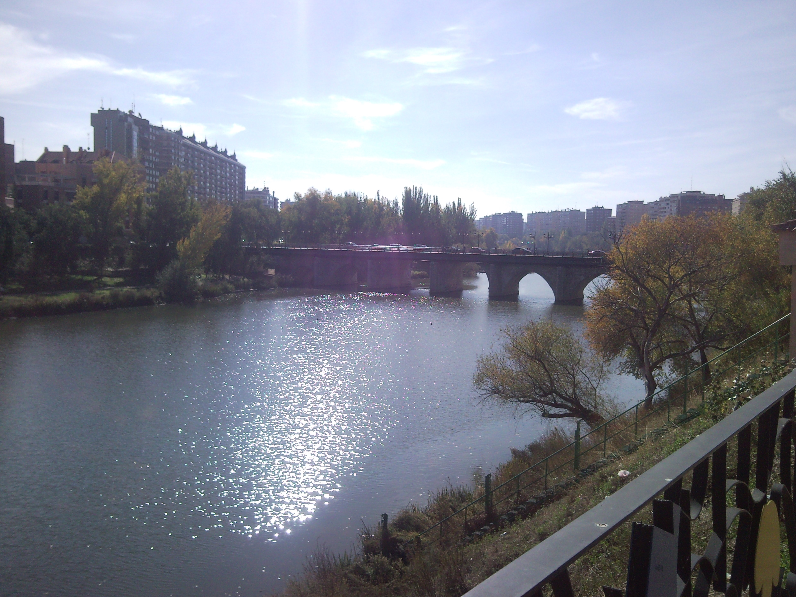 The river Pisuerga flowing through Valladolid. El Puente Mayor (bridge).